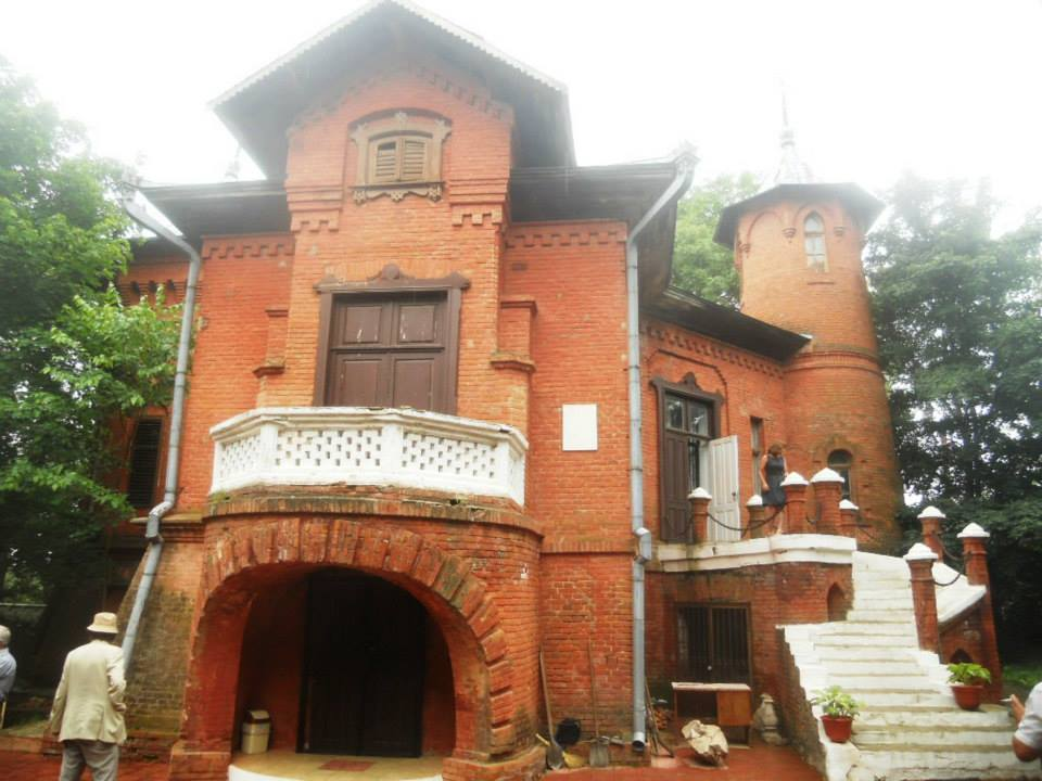 Restoration of mansion of Manuc Bei, located in Hîncești, Republic of Moldova